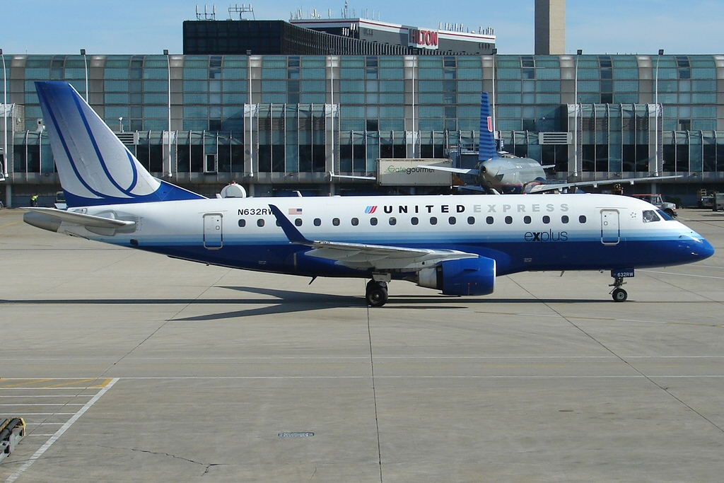 EMB-170-100SE. Operated by Shuttle America. Manufactured in 2004.